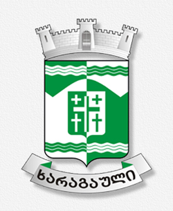 Coat of arms of Kharagauli